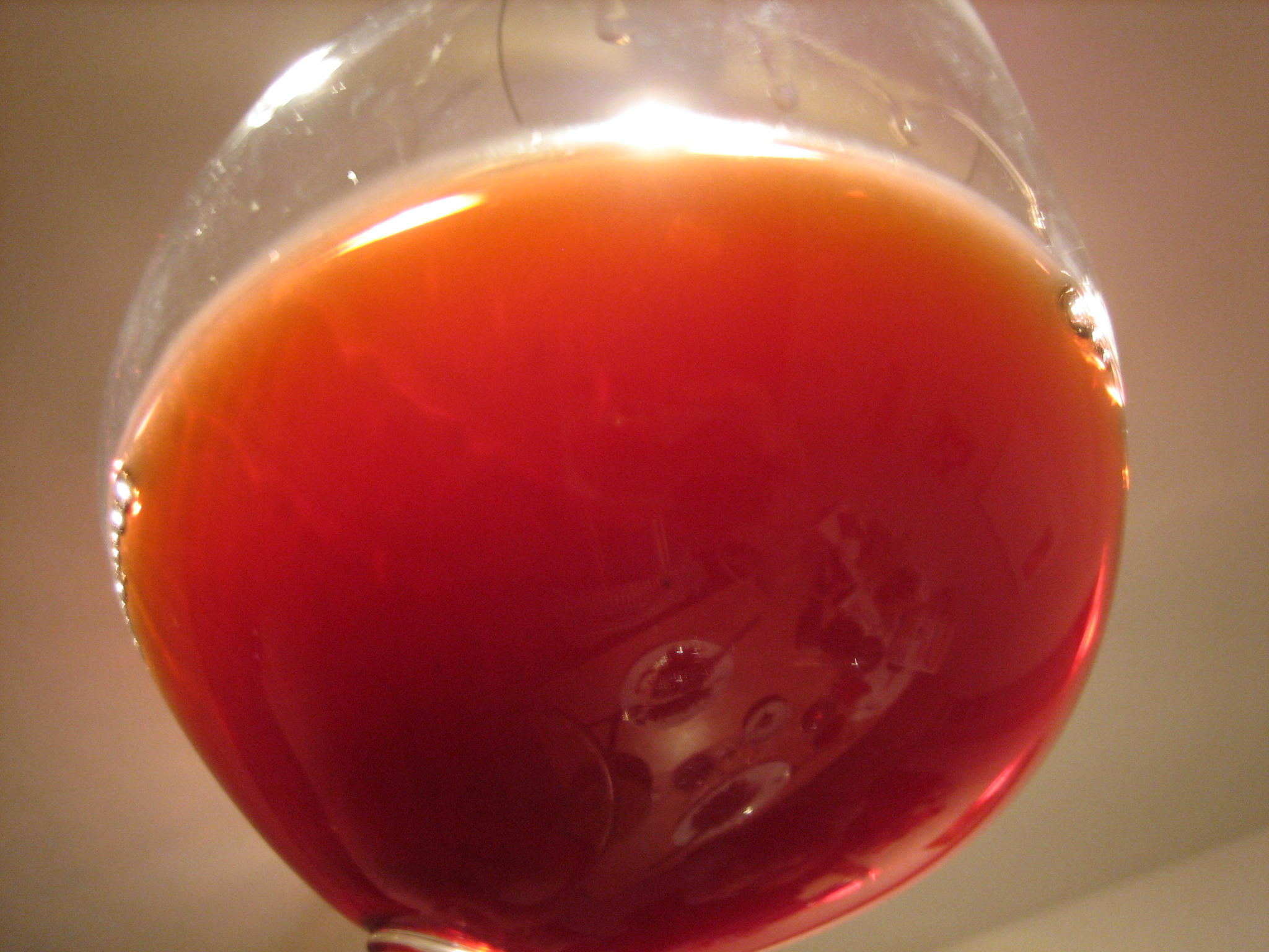 Image of an aged Barbaresco from the 1976 vintage.